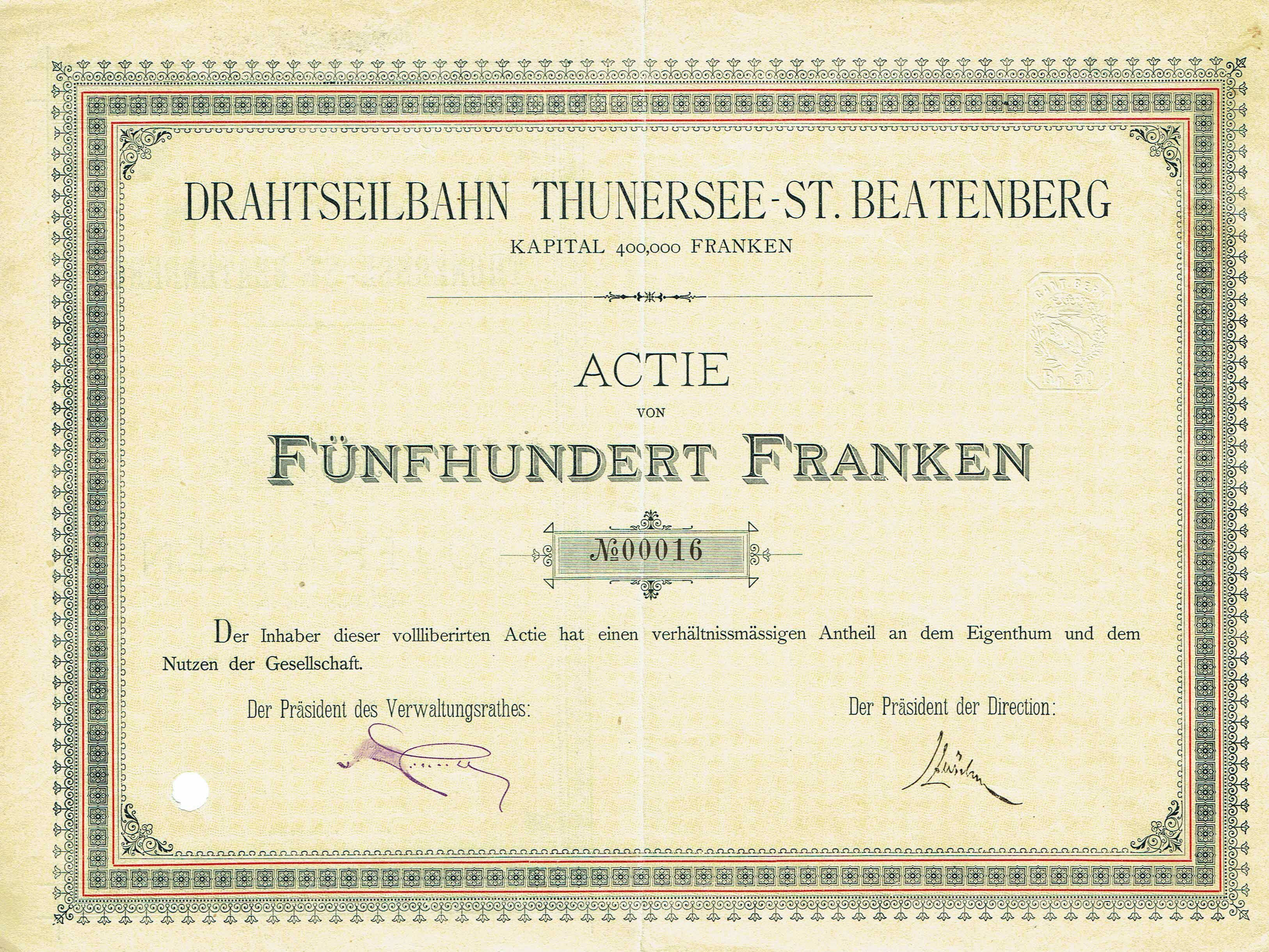 Founder's share of the Thunersee–Beatenberg Funicular, issued 1889